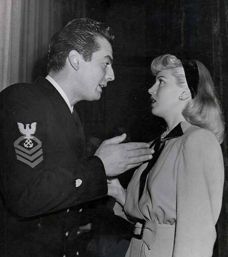 Lana Turner and Victor Mature in CBS Lux Theatre studio performing Slightly Dangerous (1943)